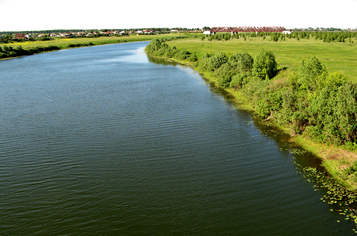 Pronya River in Spassky district of the Ryazan Oblast.